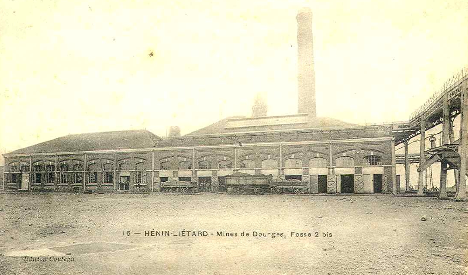 Compagnie des mines de Dourges, Pas-de-Calais, France.